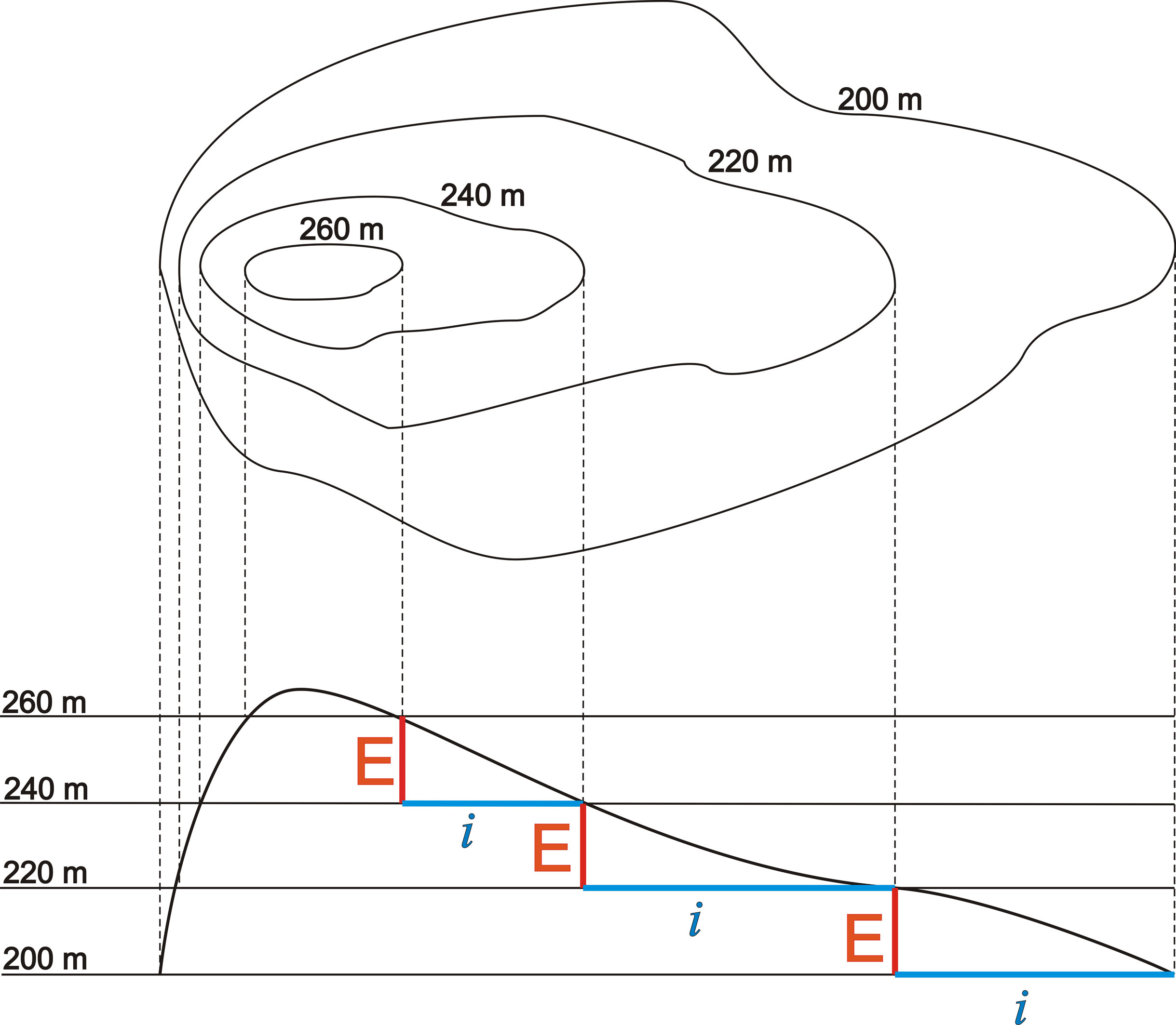 Equidistant and interval on topographic map